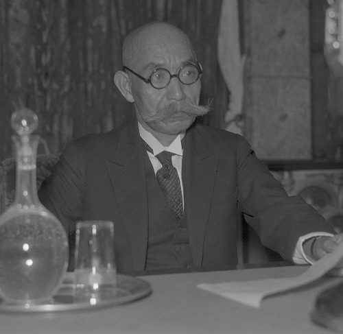 Portrait of Hayashi Senjuro (林銑十郎, 1876 – 1943), 22nd Prime Minister of Japan (1937 – 1937)